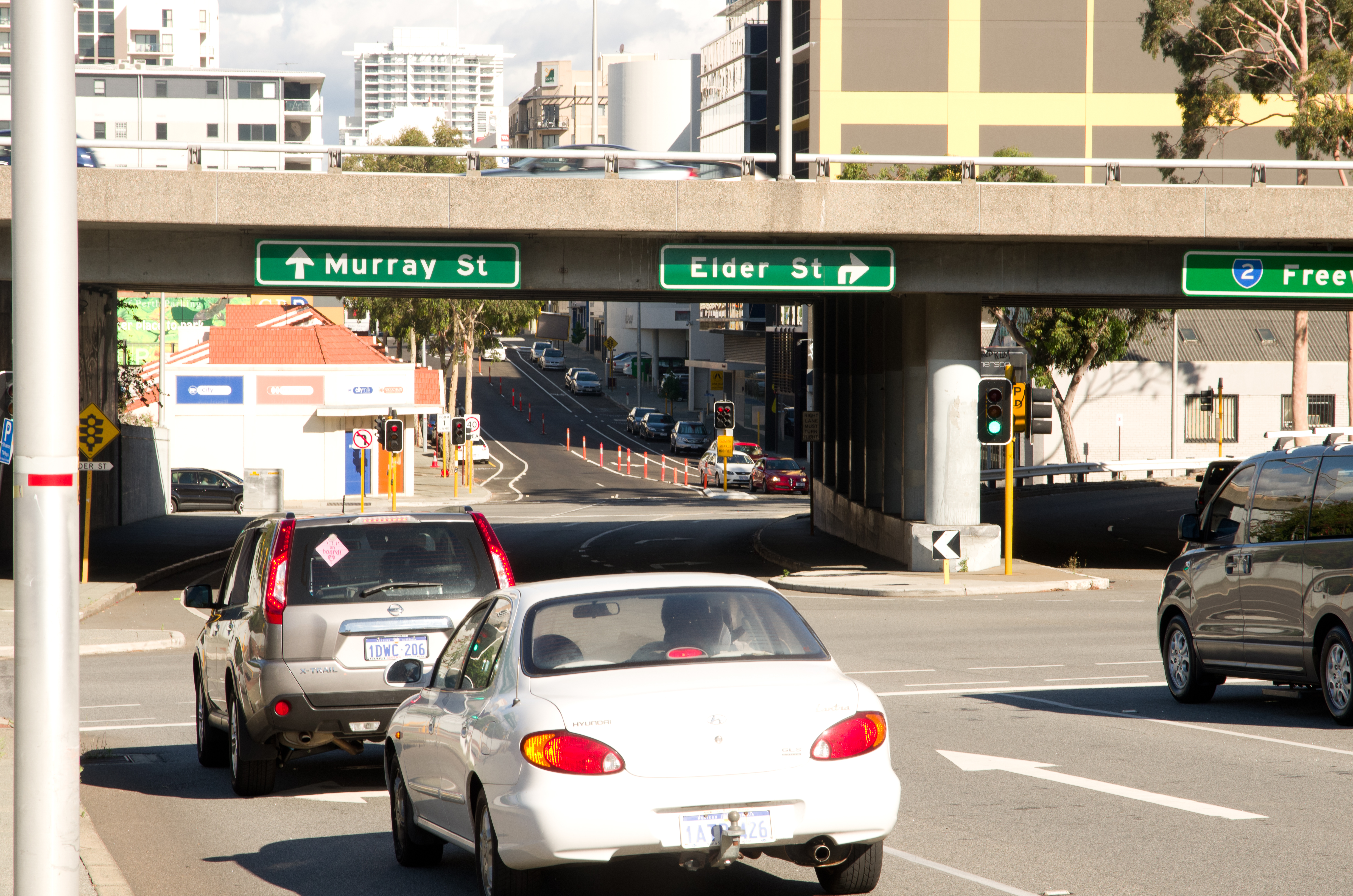 Cnr Murray and Elder Streets Perth, on the first day of traffic flow returning to two after 40 years of being one way